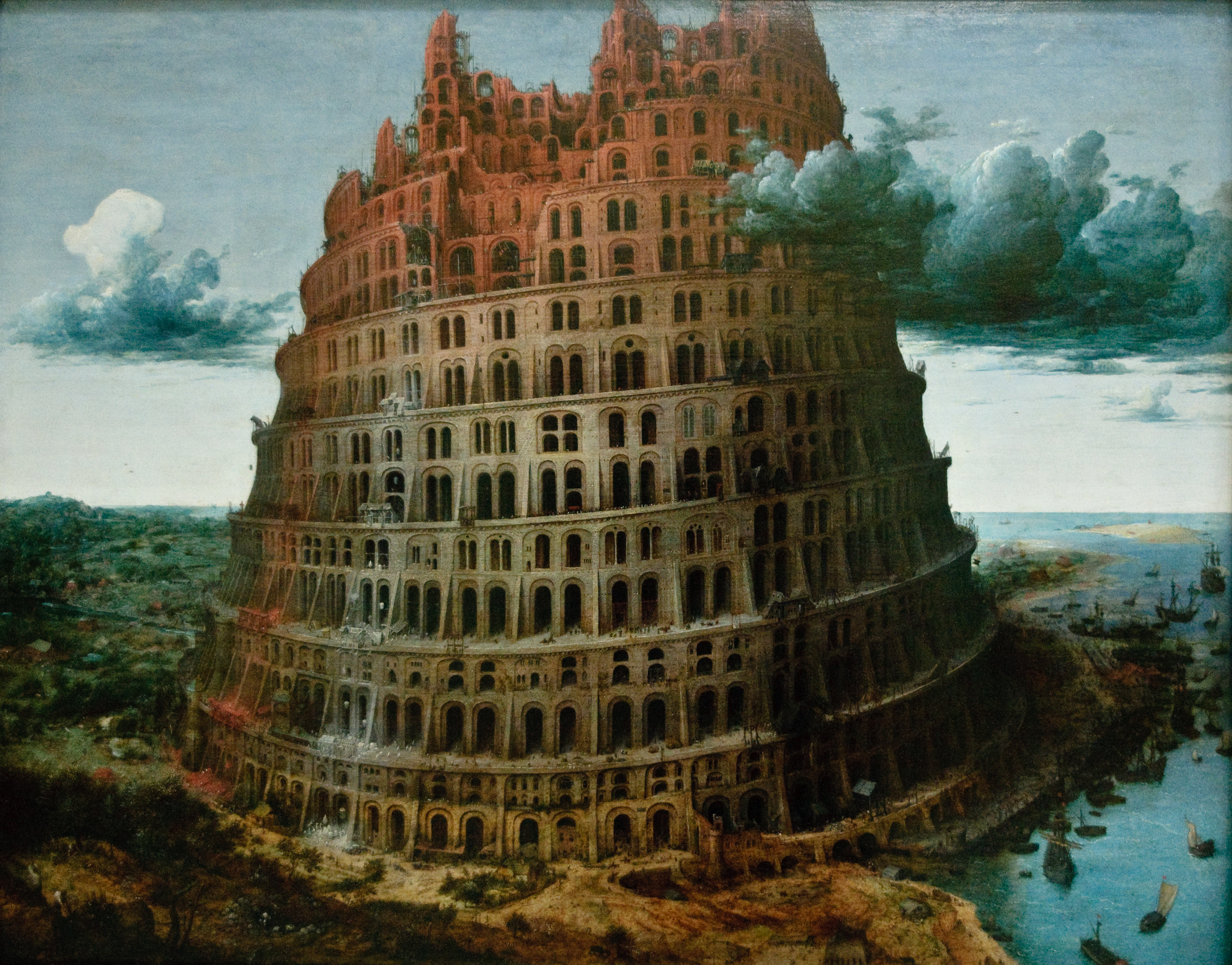 The Tower of Babel by Pieter Bruegel the Elder (Rotterdam)